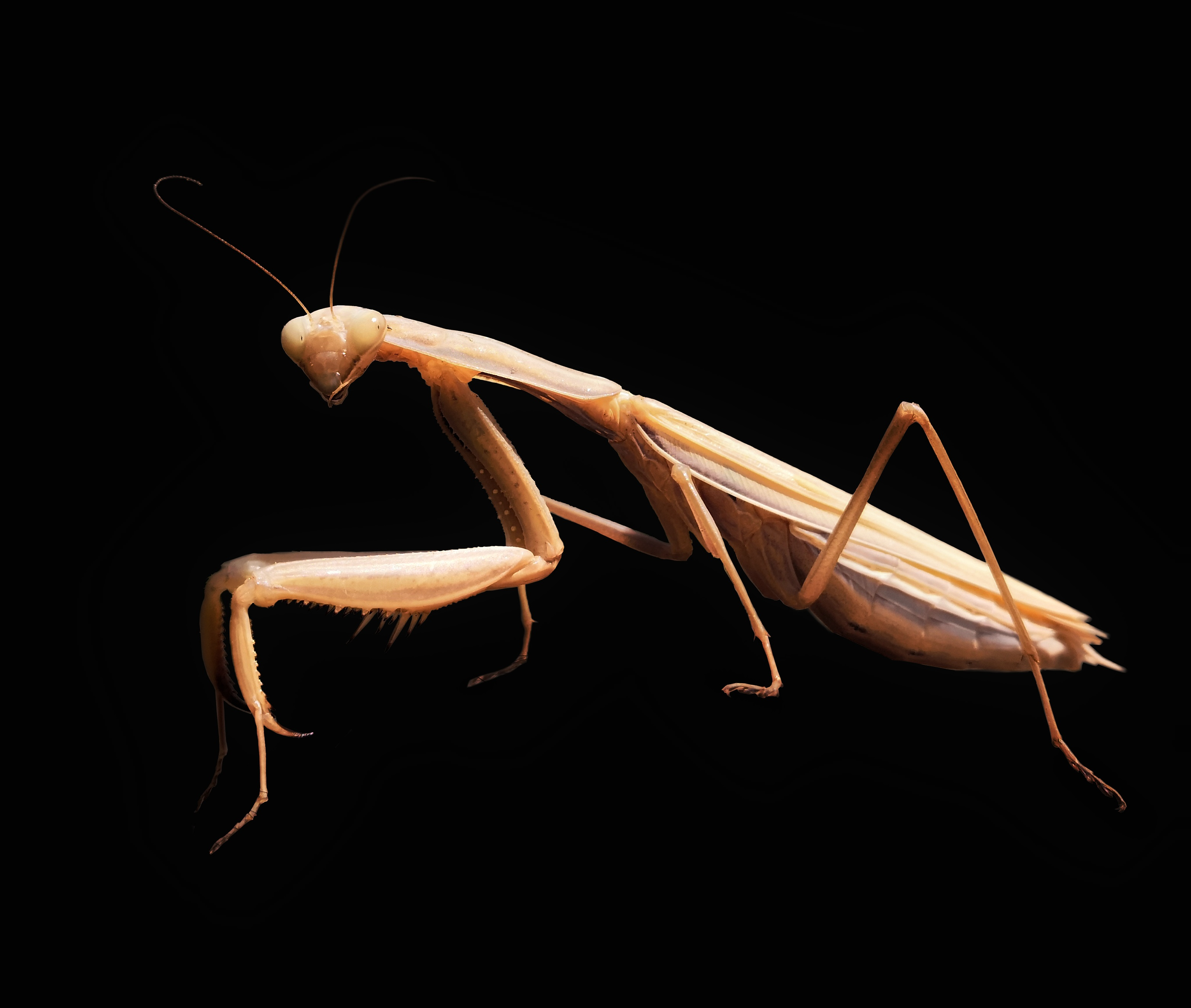 High resolution photo representing a brown praying mantis "Mantis religiosa" or "European mantis" on a black background with high details.